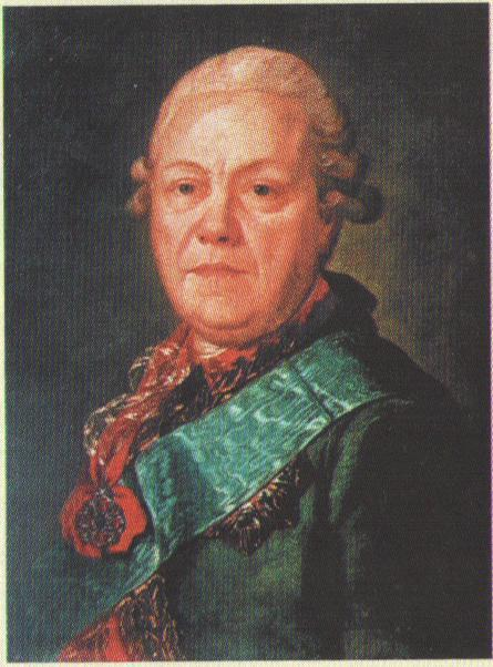 Alexander Artemevich Zagrjazhsky (1716 - 1786) - Natalia Pushkinoj's great-grandfather. Artist Rokotov F.S. The middle of 1770th years.